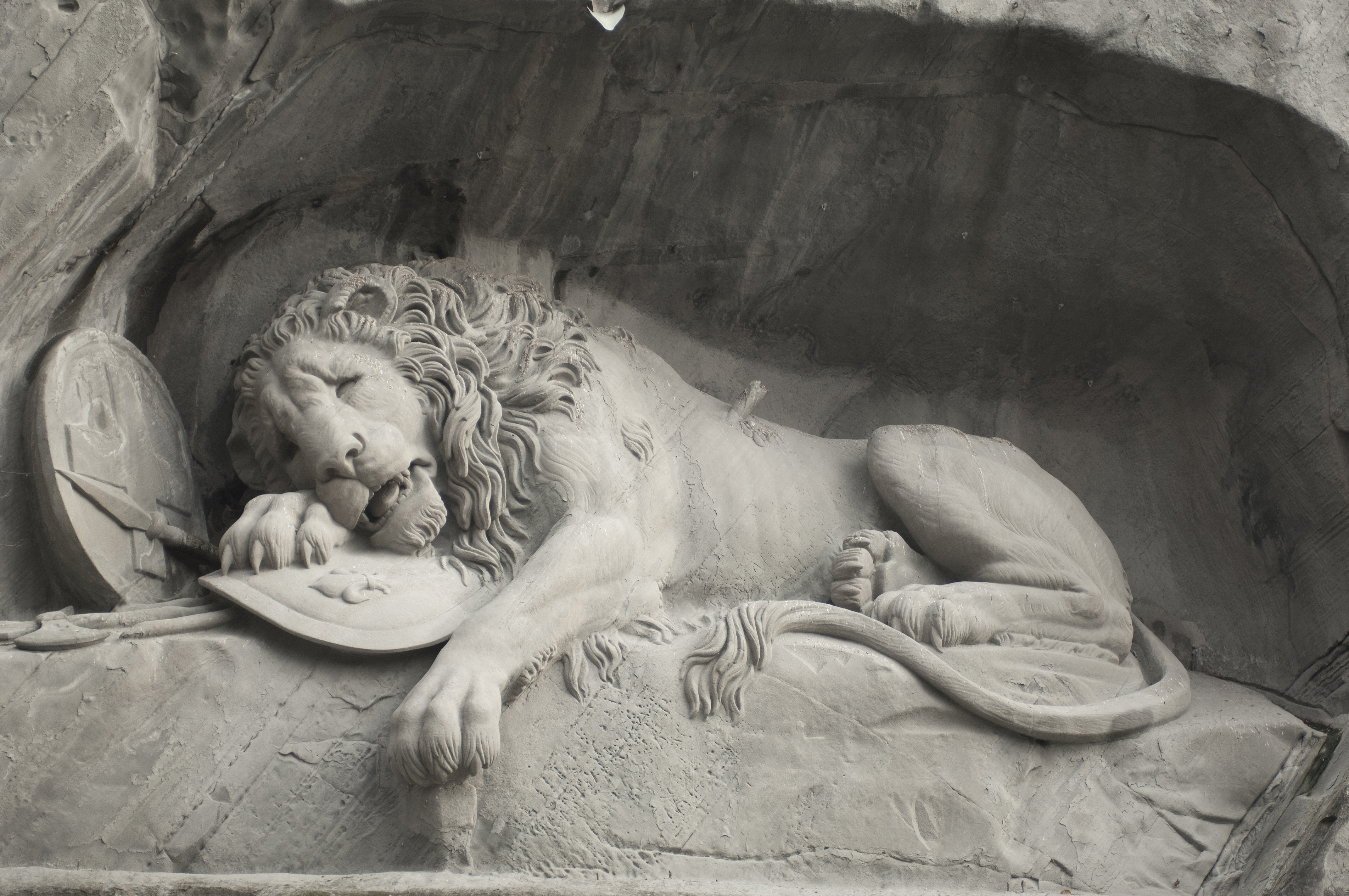 Löwendenkmal (The Lion Monument) in Lucerne, Switerland